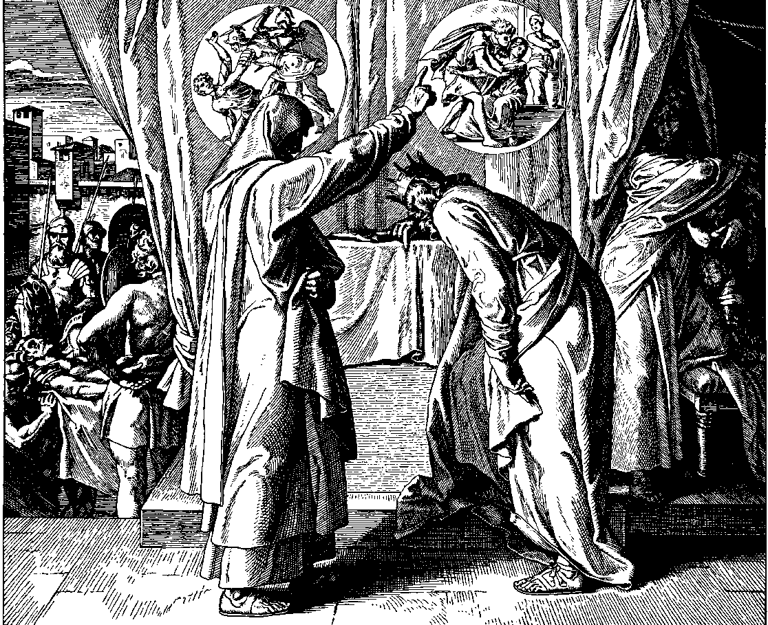 Woodcut for "Die Bibel in Bildern", 1860.